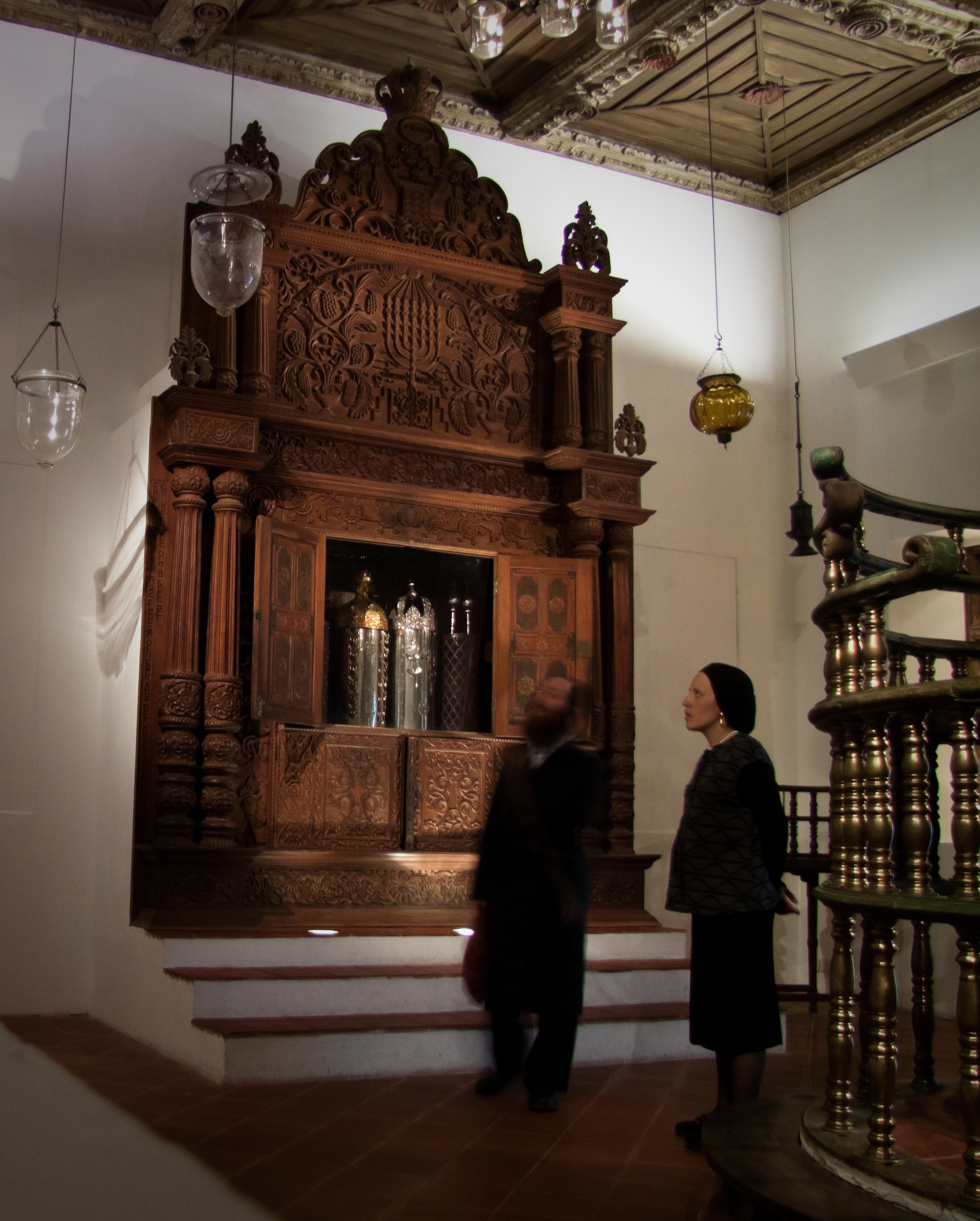 Kadavumbagam synagogue brought from Cochin, Southern India. Built around 1539–44.This museum has received a "face-lift" recently and is absolutely world class excellent now!